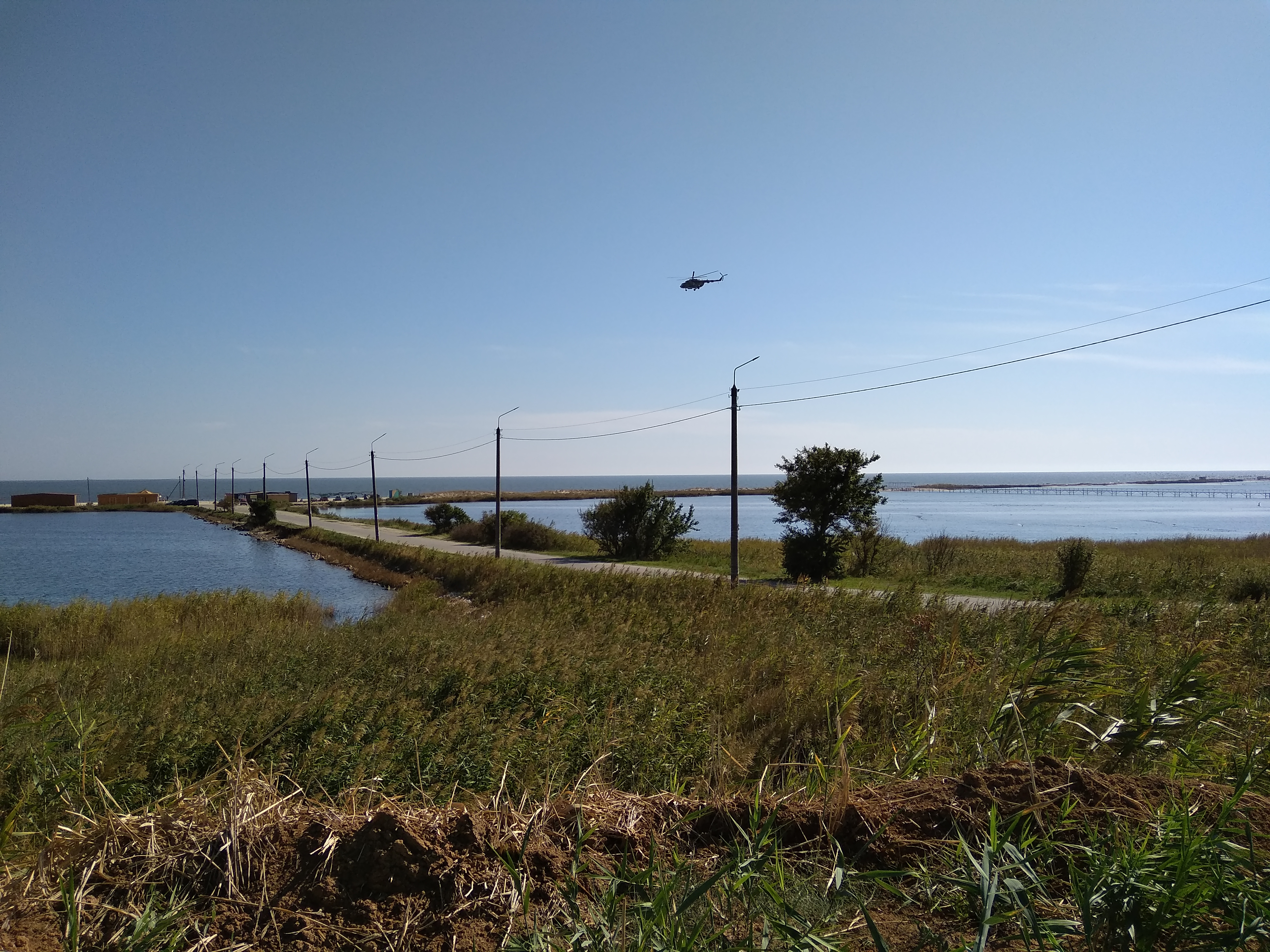 Prymorsk Beach (Morska Vulitsya)